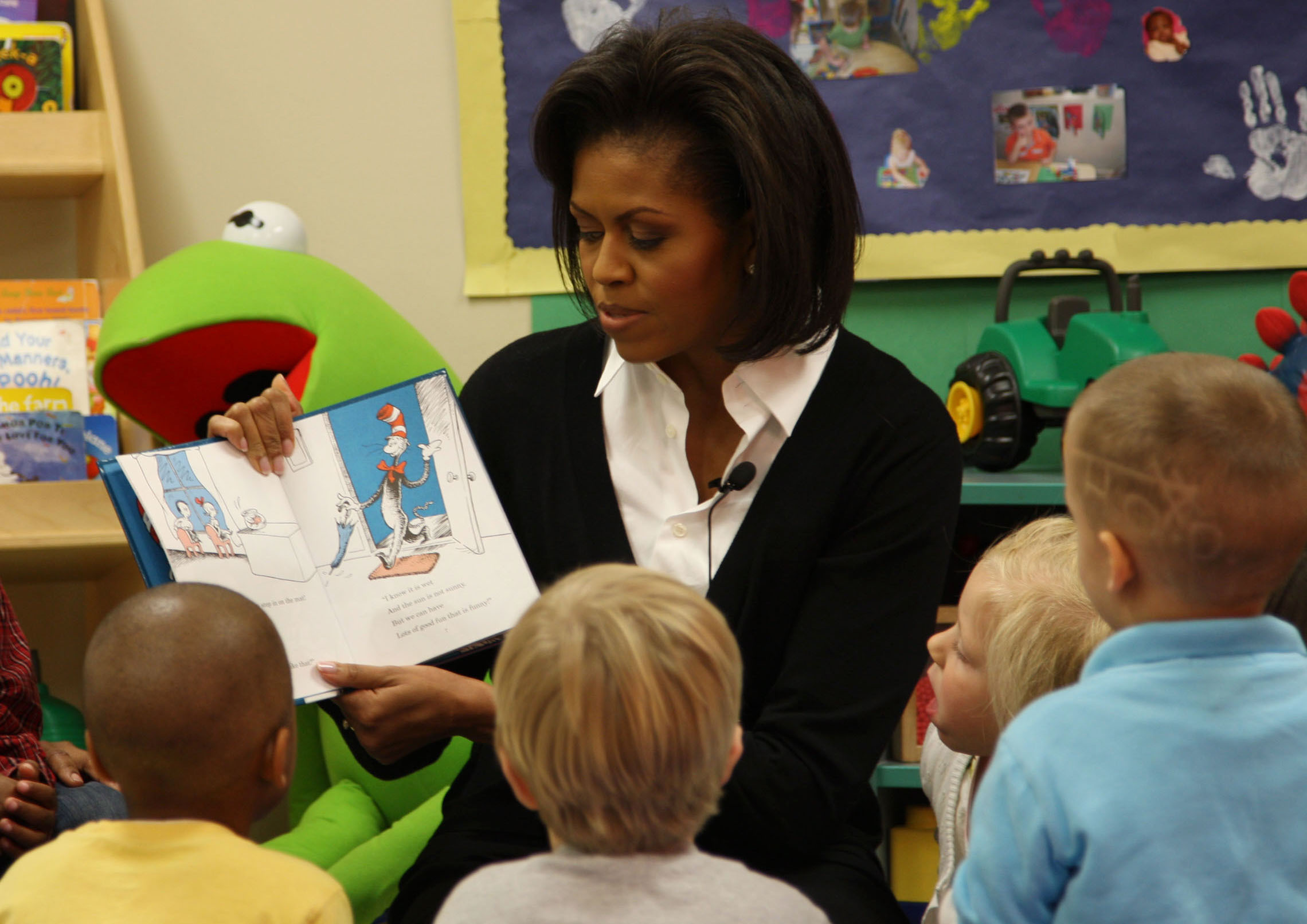 First Lady Michelle Obama reads "The Cat in the Hat" to children in Ms. Mattie's class at Prager Child Development Center, March 12, during her visit to Fort Bragg. The First Lady spoke with Soldiers and family members as part of her initiative to care for military families.